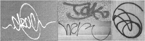 A selection of graffiti tags. Photo/author: Staffan Jacobson 2006 URL: license and permission. Aimed for wikipedia Sweden article on calligraphy. December 21, 2006.